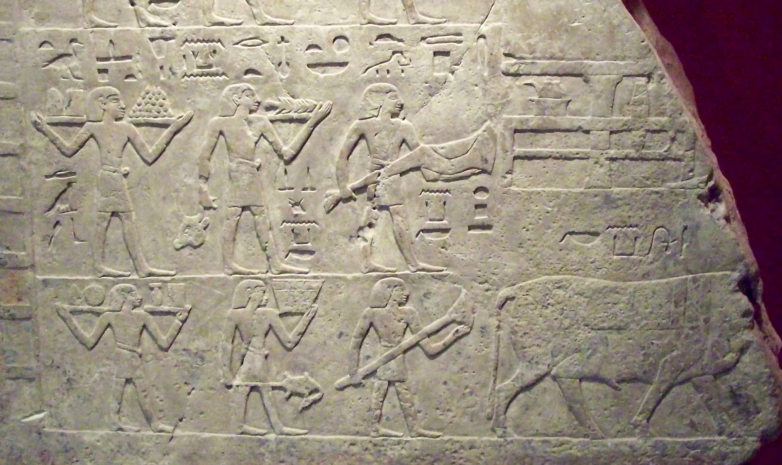 Partial view of the bas-relief from the north wall of an Ancient Egyptian funerary chapel containing the tombs of district governor Neferkhau and a woman named Sat-Bahetep (probably his wife). Piece is dated between 9th and 11th dinasties. It shows a funerary food-offering ritual for Sat-Baheteps's ka.